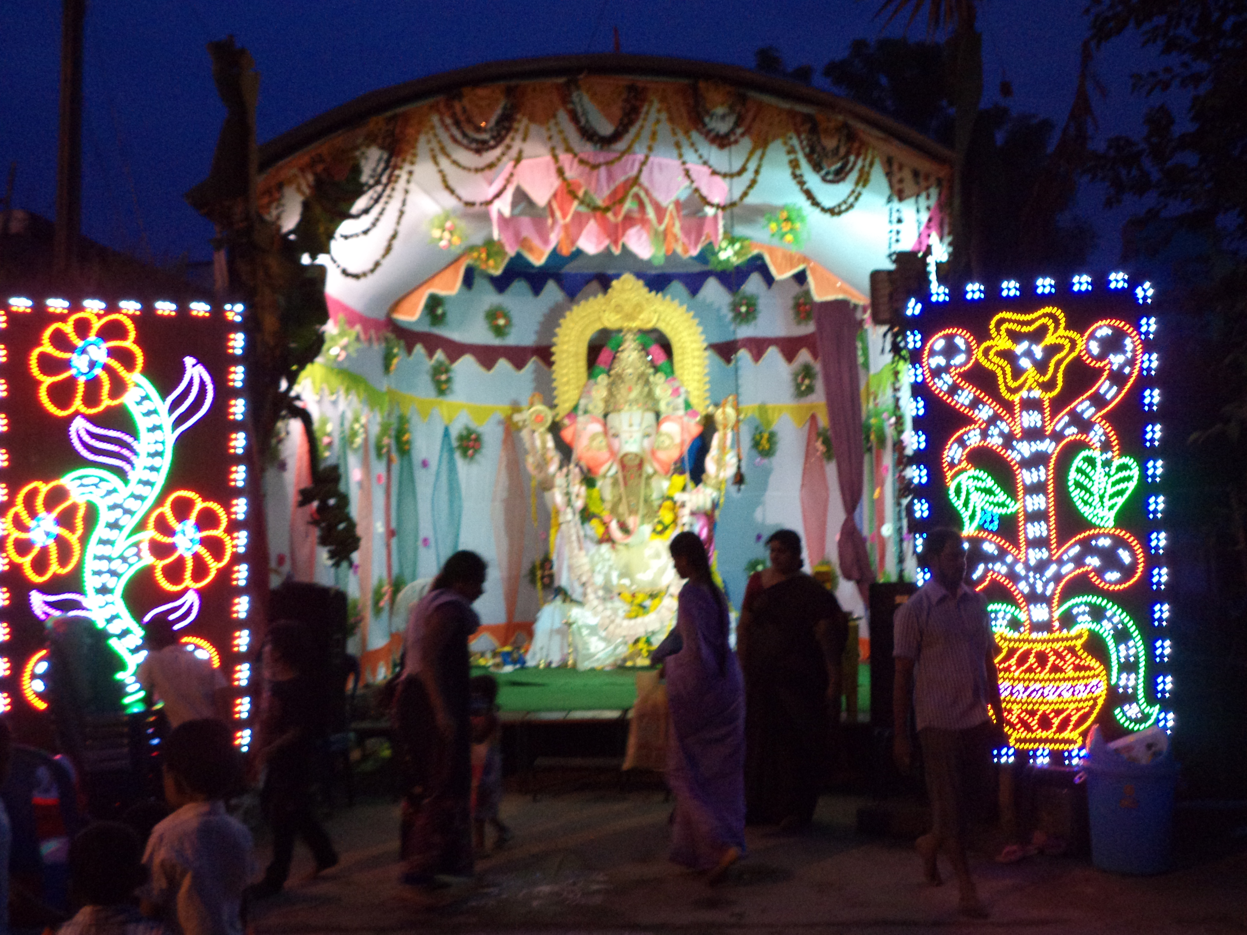 Vinaayakudu, pedabaavi center, Kanuru,Vijayawada-520 007.